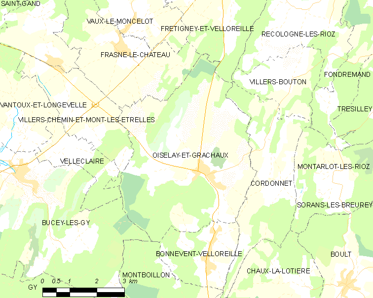 Map of French municipality